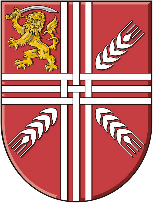 Small Coat of Arms of the municipality of Nova Crnja, with cross triple-parted and fretted